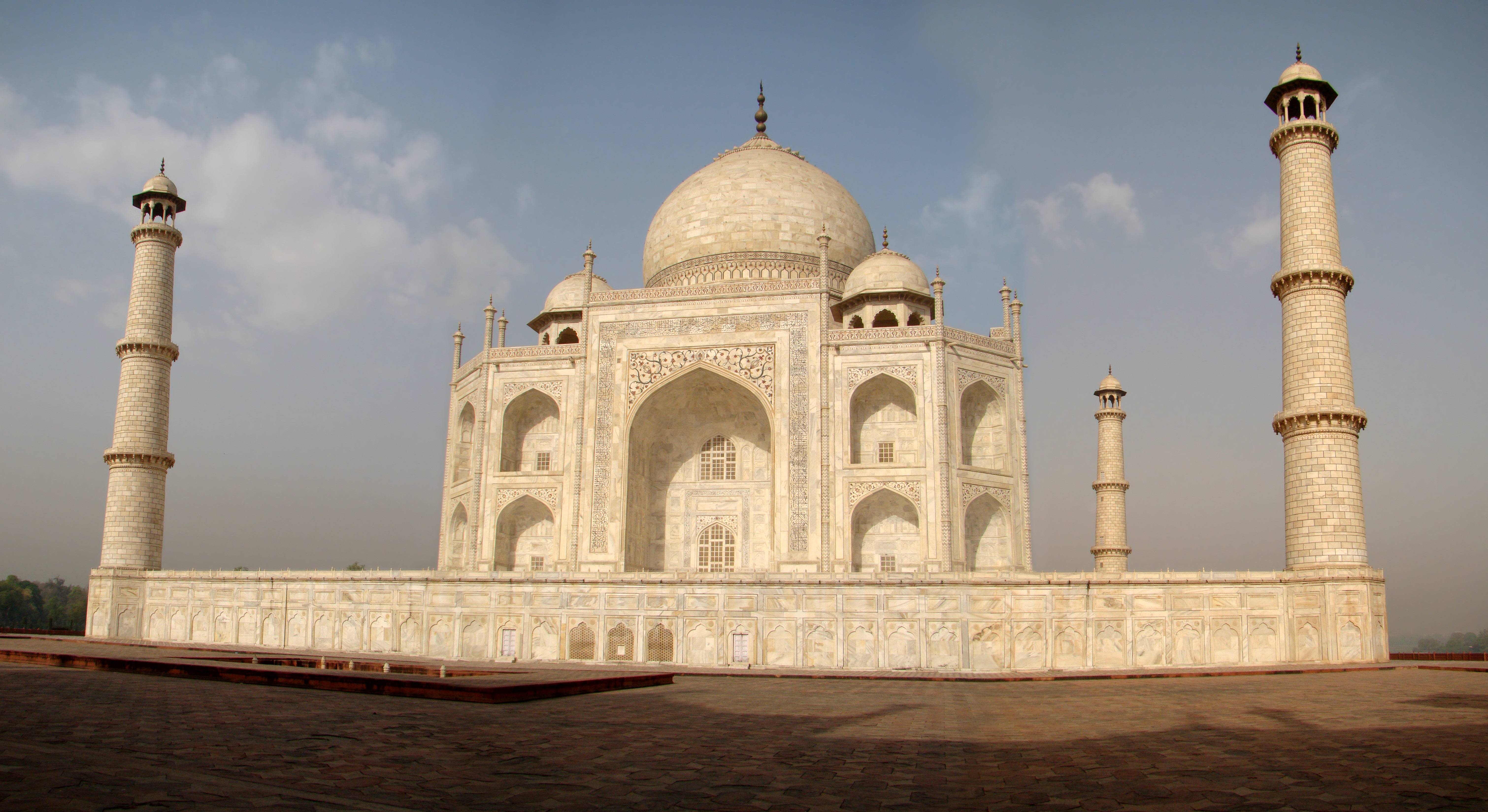 The eastern side of the famous Taj Mahal as seen shortly after sunrise. This immense mausoleum of white marble, built in Agra between 1631 and 1648 by order of the Mughal emperor Shah Jahan in memory of his favourite wife. The building is the most exquisite example of Muslim art and architecture in India.